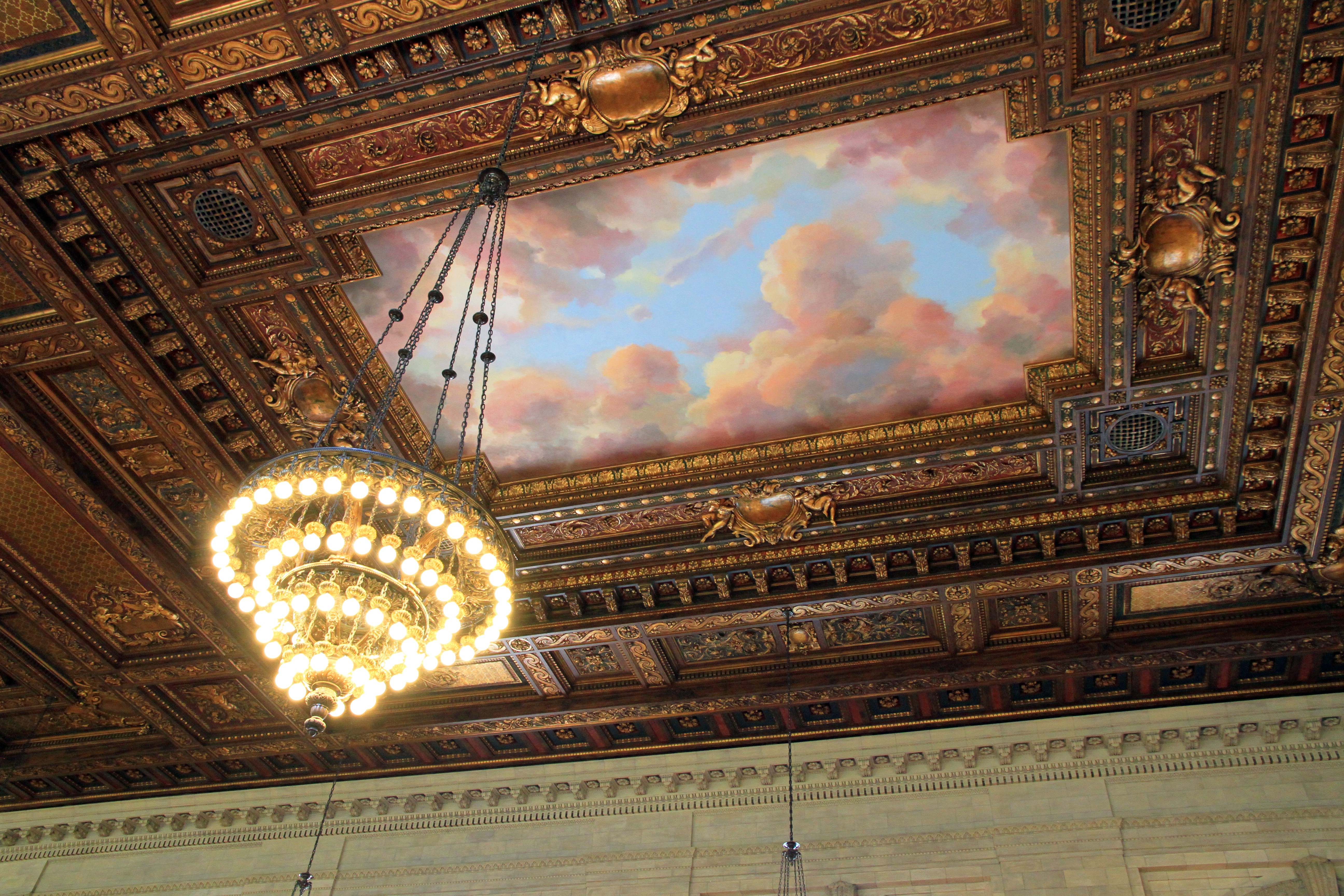 New York Public Library, 2013